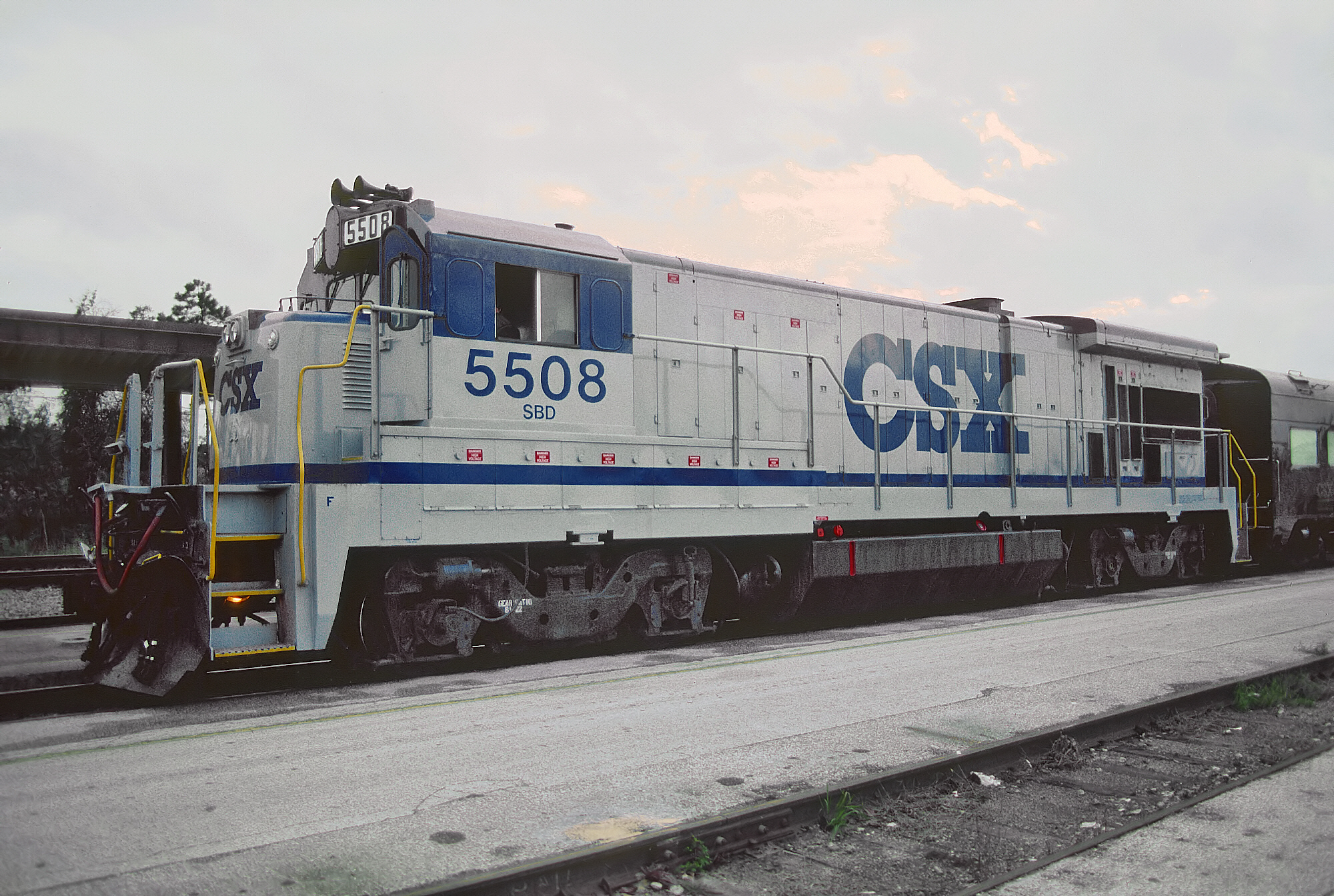 A Roger Puta photograph